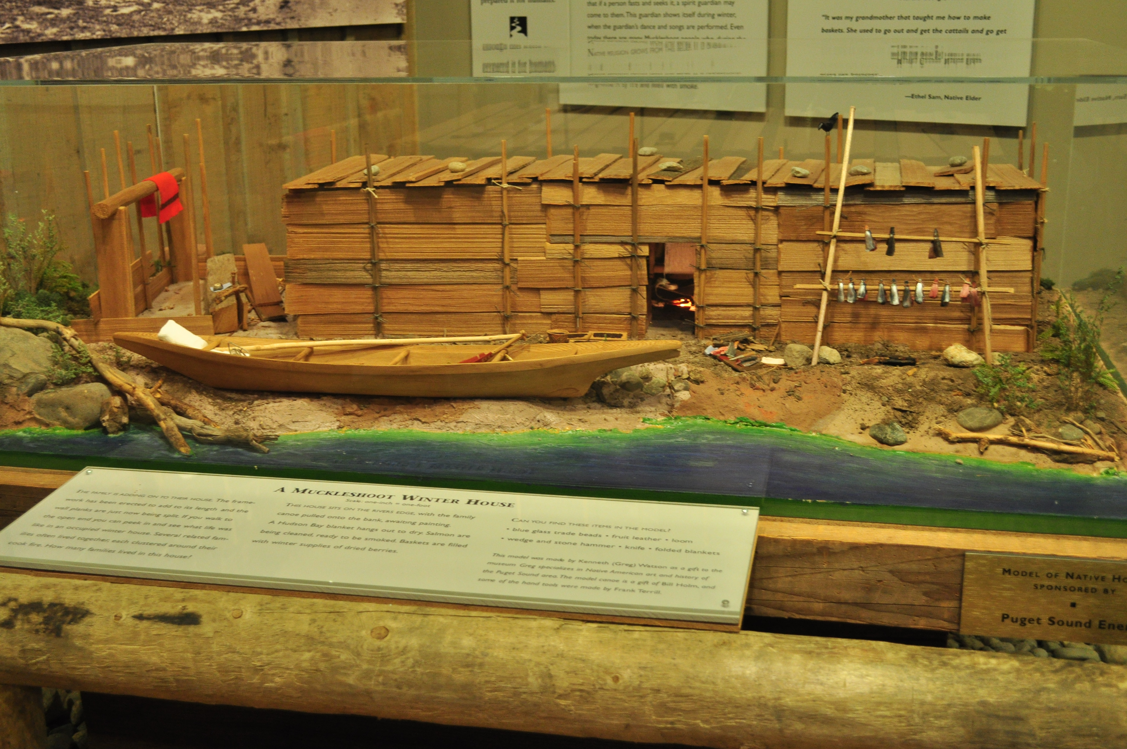 Model of a traditional Muckleshoot winter house, White River Valley Museum, Auburn, Washington.